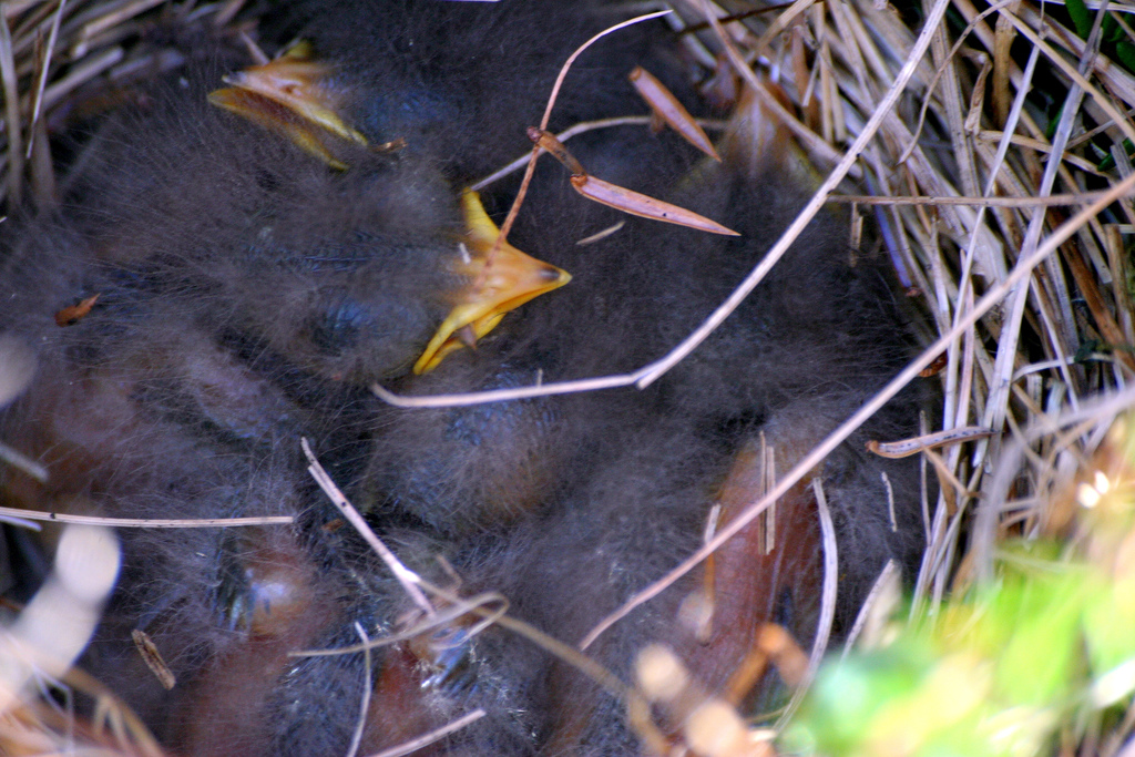 Young Meadow Pipits (Anthus pratensis) in the nest.